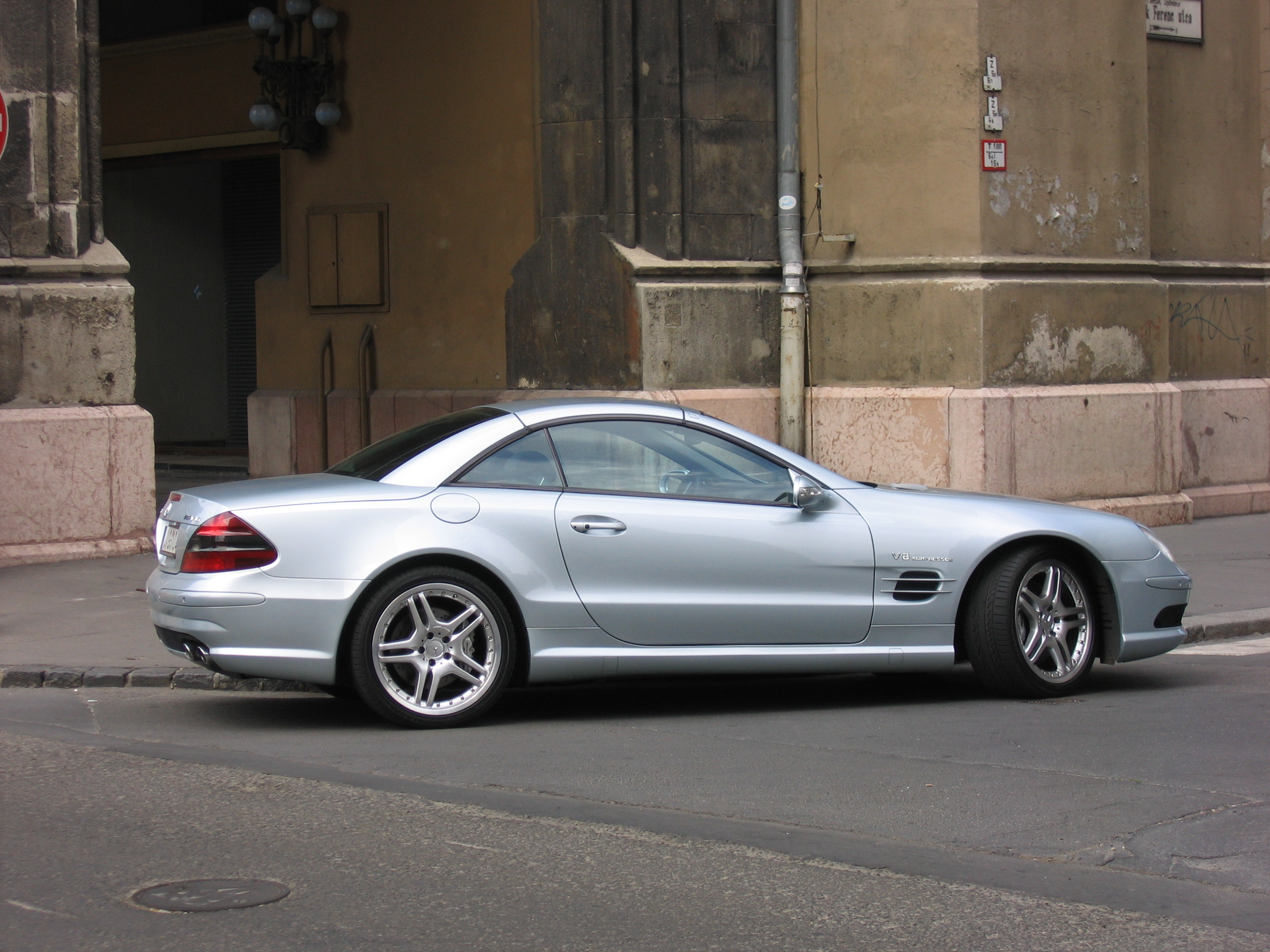 Mercedes-Benz SL 55 AMG in Budapest